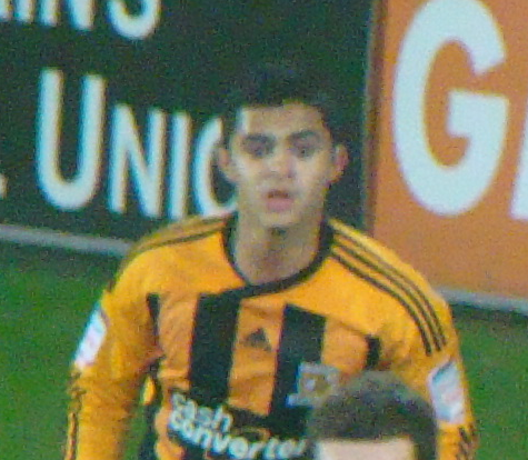 Cameron Stewart. Image cropped from original at flickr.